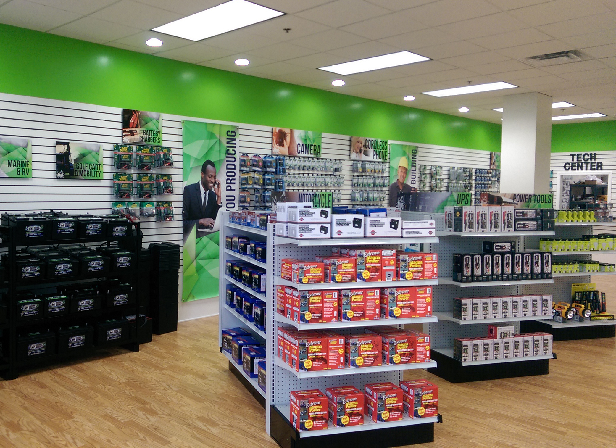 Interior of Battery Giant location in Naperville, IL that opened in 2014.